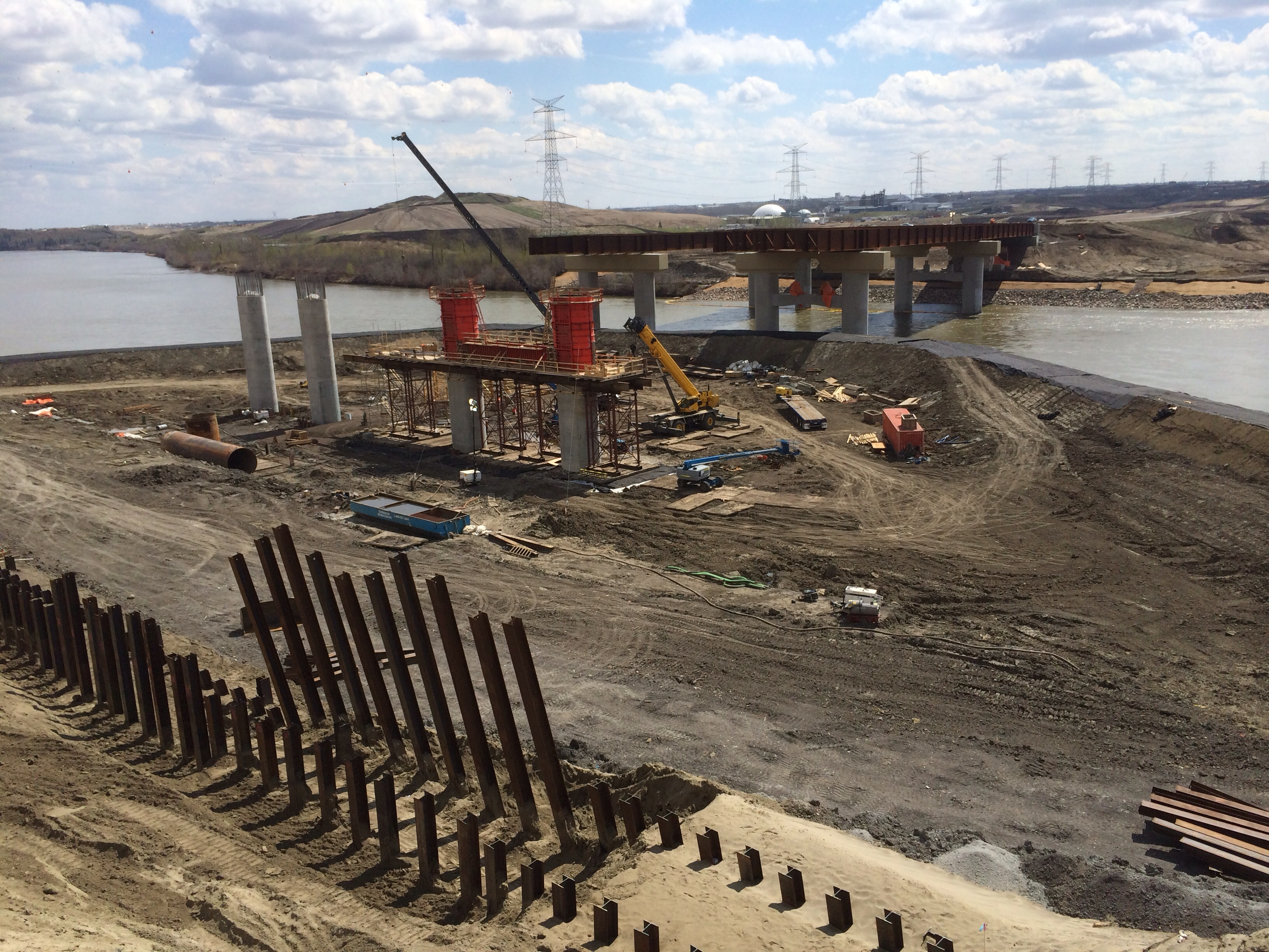 Construction of two bridges carrying Anthony Henday Drive over the North Saskatchewan River in northeast Edmonton.